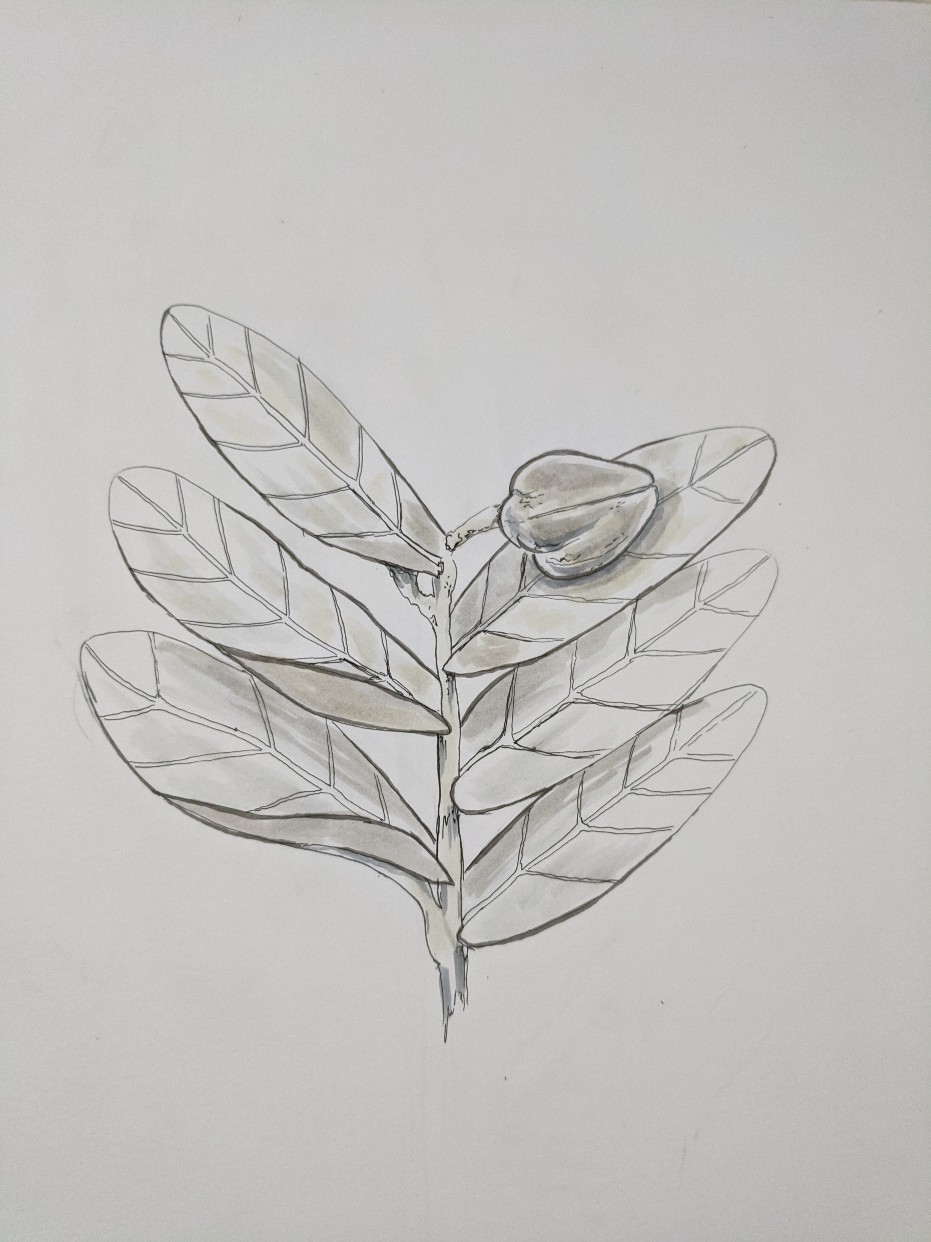 A drawing detailing the morphology of A. aurantiaca. Notably, this includes the alternate attachment of the leaves which are attached individually to a woody stem via their peduncles. It also details the leaves pinnate venation. The edible berry fruit is pictured off-center right at the apical stem of the plant.